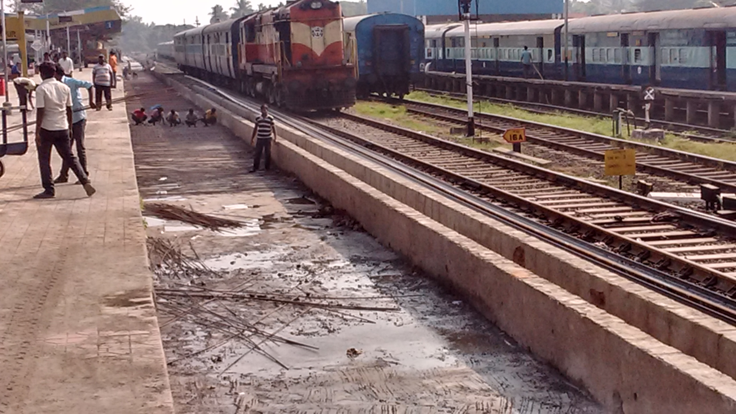 Narsapur Railway Station